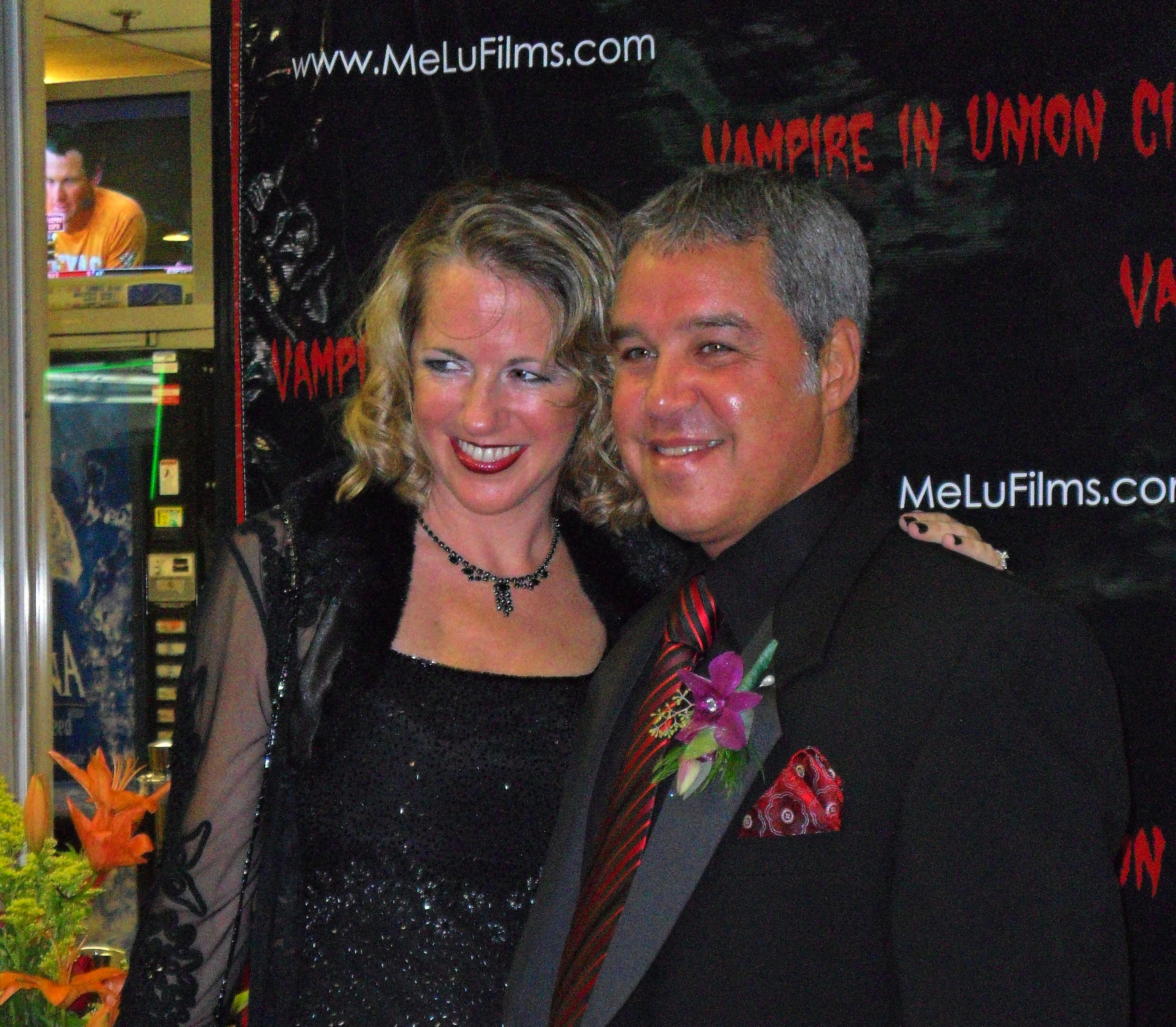 The September 3, 2010, world premiere of the independent gothic horror art film, Vampire in Union City, at the Summit Quadplex Theater in Union City, New Jersey, where the movie was entirely filmed. This marked the first movie premiere in the city’s history. Pictured are actor/singer/writer/director and Union City, New Jersey Commissioner Lucio P. Fernandez, who co-wrote, directed and starred in the film, and his wife, dance choreographer and America’s Got Talent contestant Megan Fernandez. This photo was created by Luigi Novi. It is not in the public domain, and use of this file outside of the licensing terms is a copyright violation.